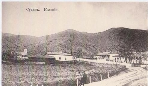 German Colony.Sudak, Crimea, 1912.